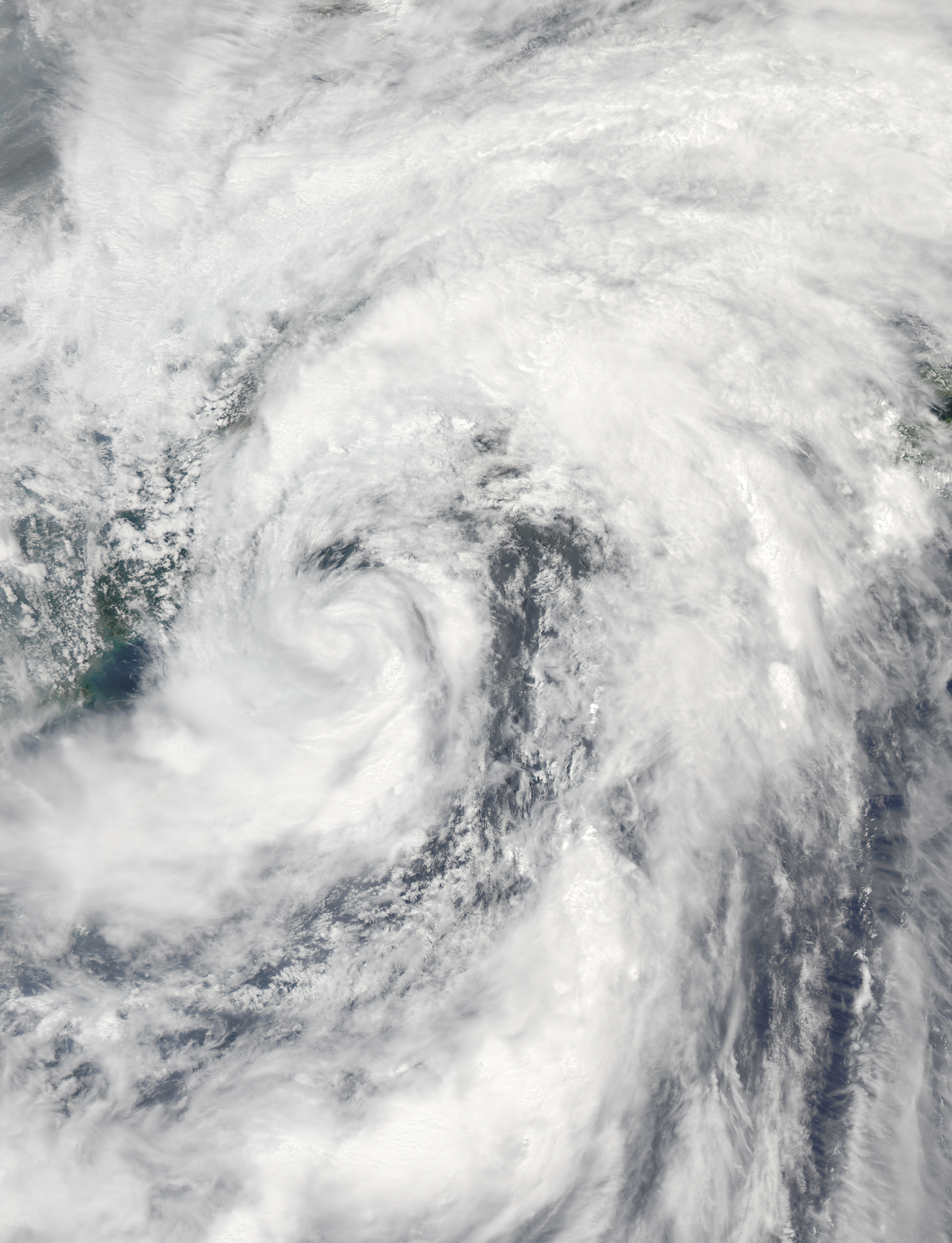 Severe Tropical Storm Meari near peak intensity on June 25, 2011.